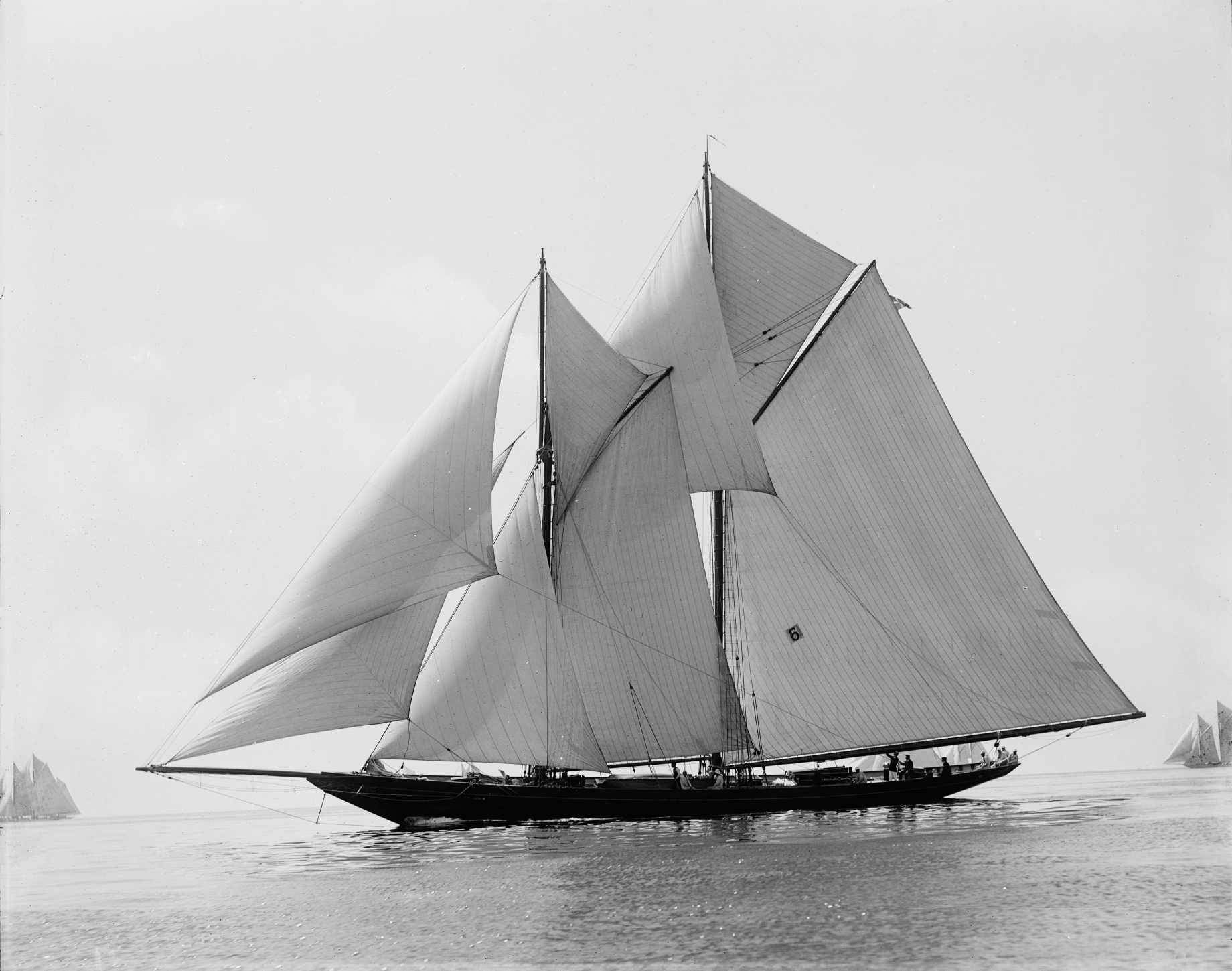 Seawanhaka Corinthian Yacht Club Commodore's George H. B. Hill's steel schooner Ariel (Archibald Cary Smith design, buit in 1893 at the Harlan & Hollingsworth shipyard, Wilminton, DE) pictured on the day of the Newport to Cottage City leg of the New York Yacht Club annual cruise, on August 11th, 1894, which she won in her class. New York Yacht Times - Flukey run to Cottage CityReproduction Number: LC-D4-21906